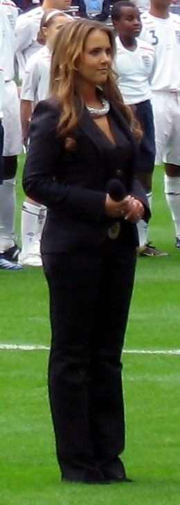 Hannah Ild singing the national anthems at Wembley Stadium for the Euro 2008 qualifier match of England vs Estonia.